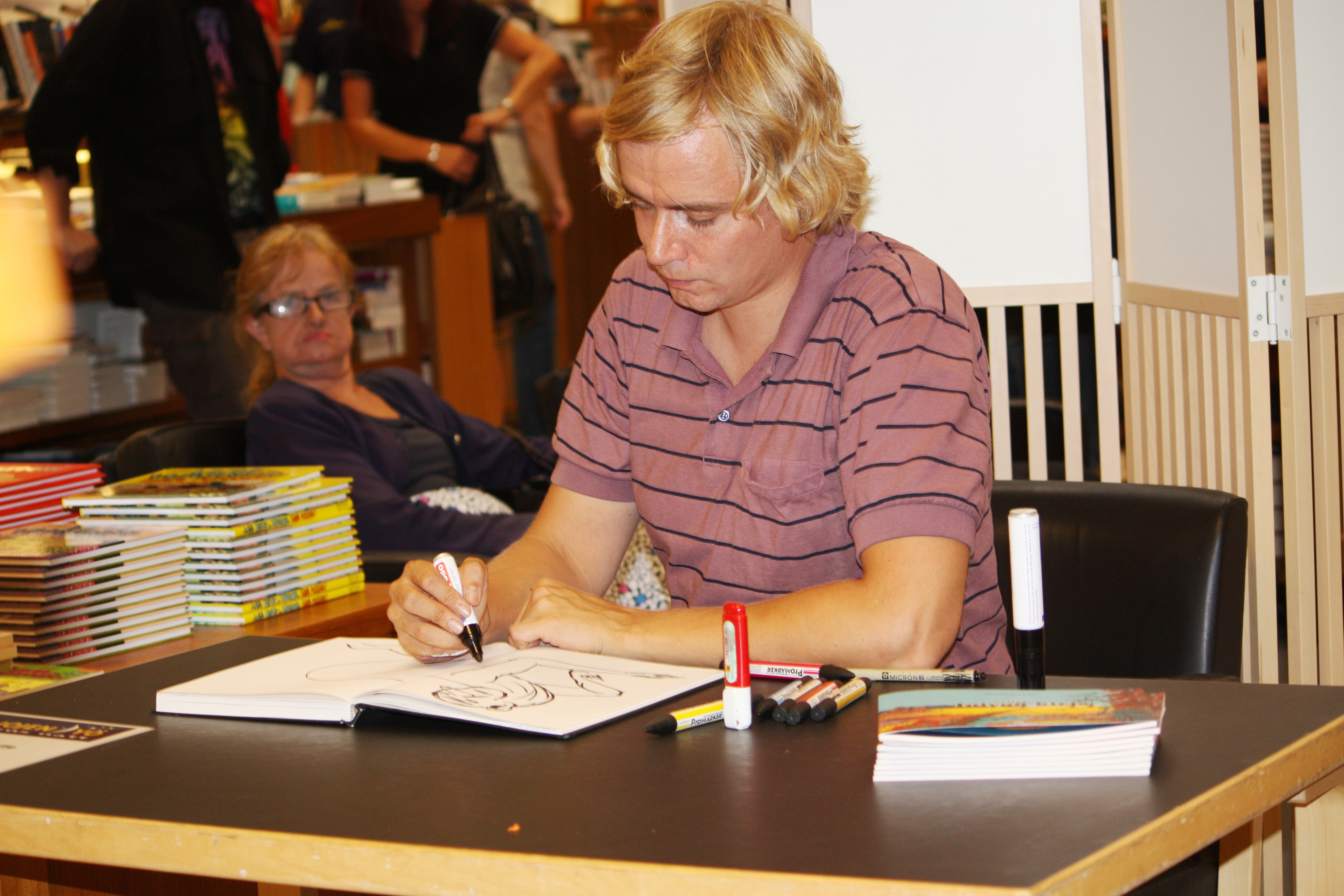 Finnish comics artist Tommi Musturi at the Academic Bookstore on the Night of the Arts in Helsinki, 2011.